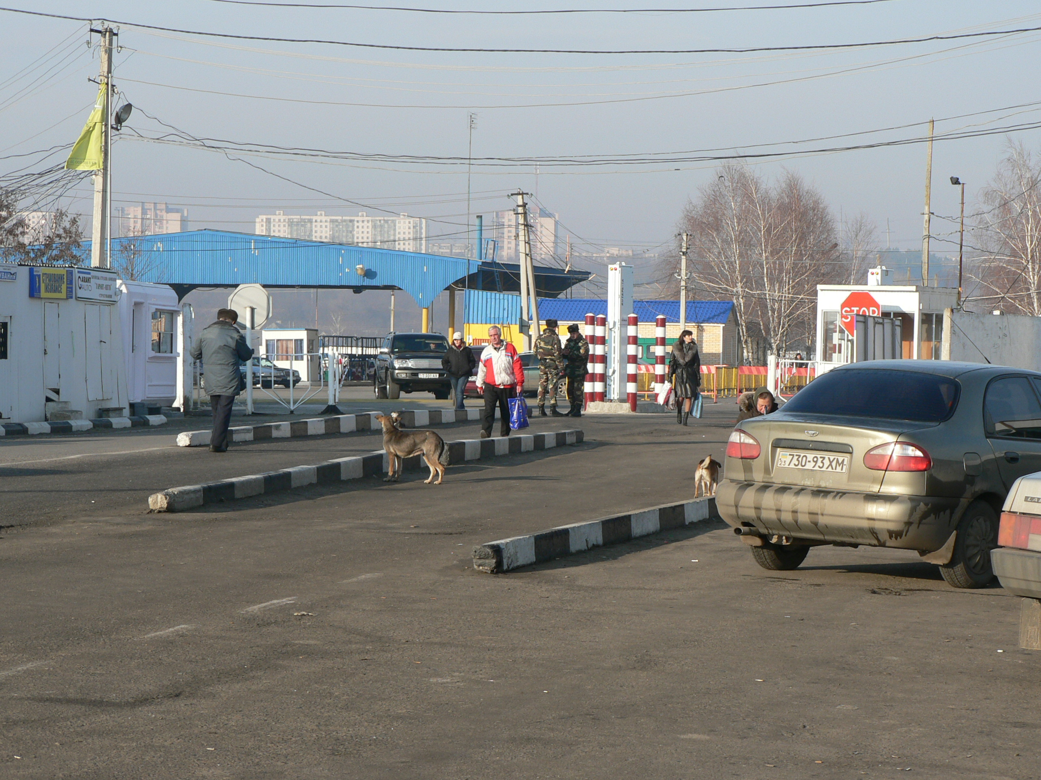 Kuchurgan border checkpoint on the European route E58 between Ukraine and Moldova/Transnistria (Kuchurhan, Odessa Oblast).